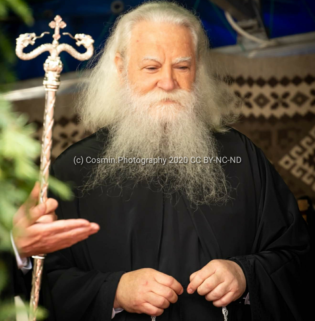 His Eminence Calinic Dumitriu, Archbishop of Suceava and Rădăuţi, in the day of his instalment, 26th July 2020